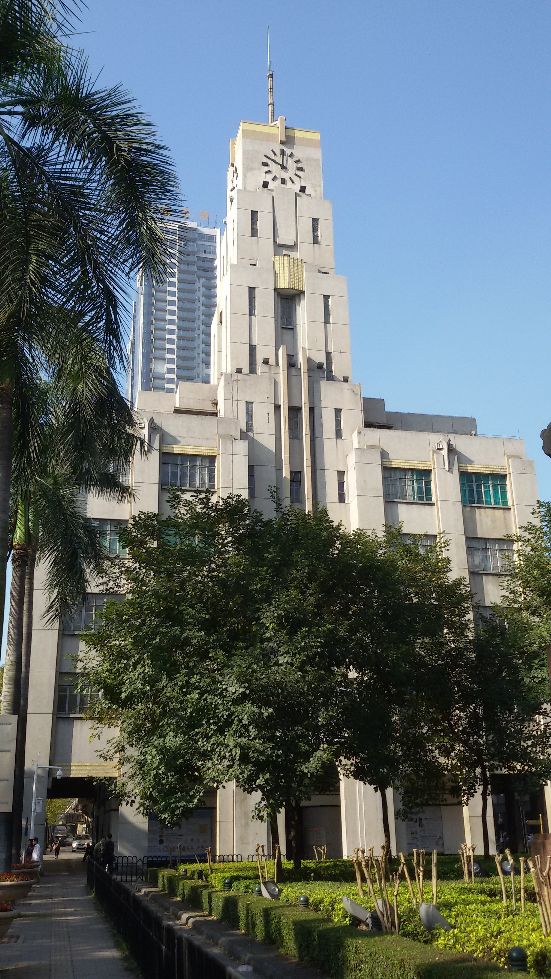 front facade of Guangzhou Eng Aun Tong Building